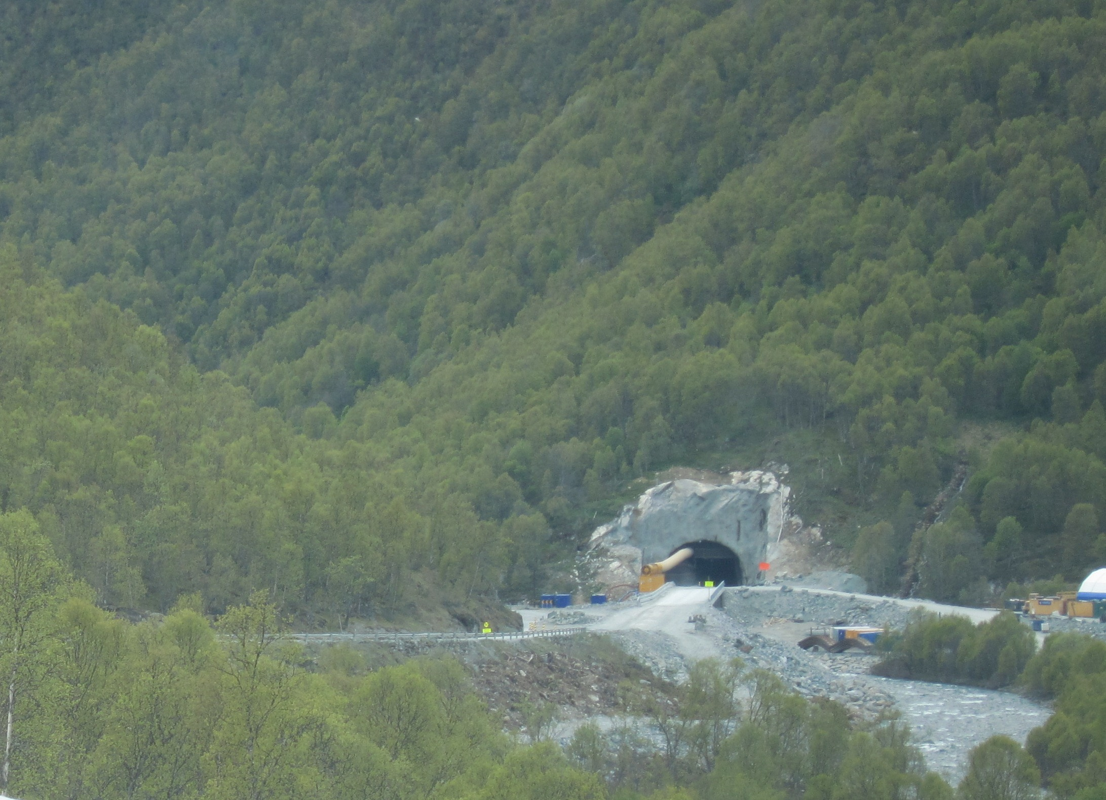 Borlaug tunnel under construction, Lærdal, Norway